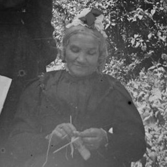 Cybele Ethel Kirk, (left) holding a copy of 'White Ribbon' newspaper, with her mother Sarah Jane Kirk, Wellington, ca 1895 Robina Nicol. Ref: 1/4-121468-G